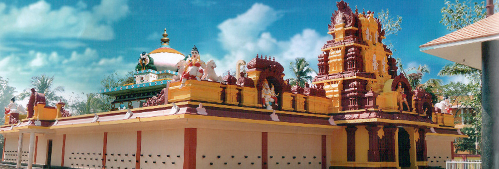 its a photograph of edava (varkala) palakkavu bhagavathi temple in 2013